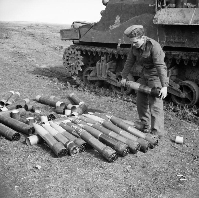 Shells being prepared for a Priest 105mm self-propelled gun in action, Operation Shingle, at Anzio, Italy.